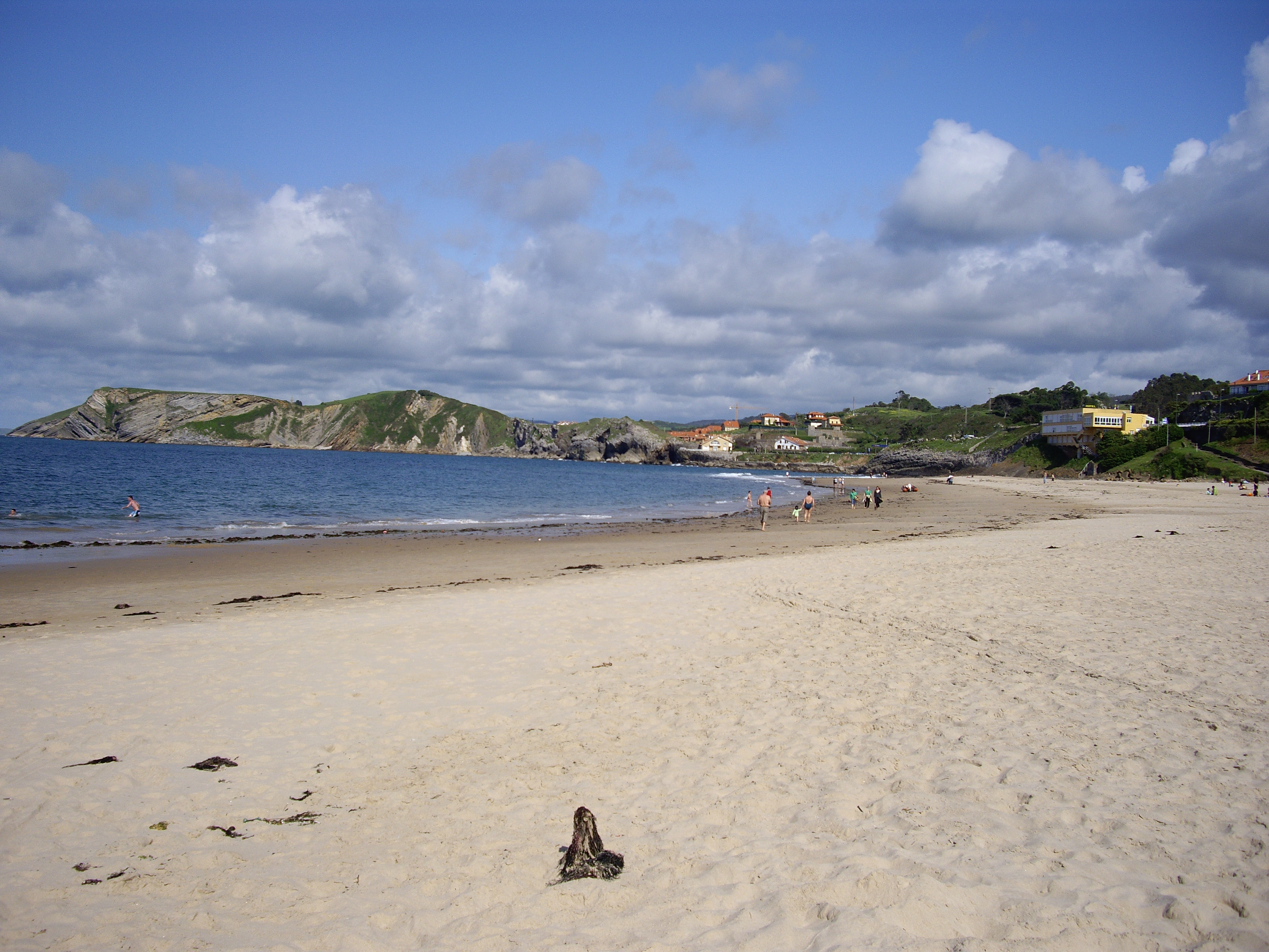 Comillas beach (Cantabria, Spain). Around 600 metres long. White and fine sand.